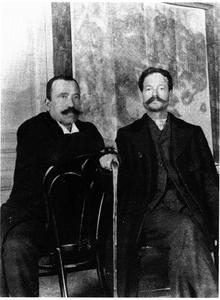 Antonis Antoniadis or Antonakis (right)